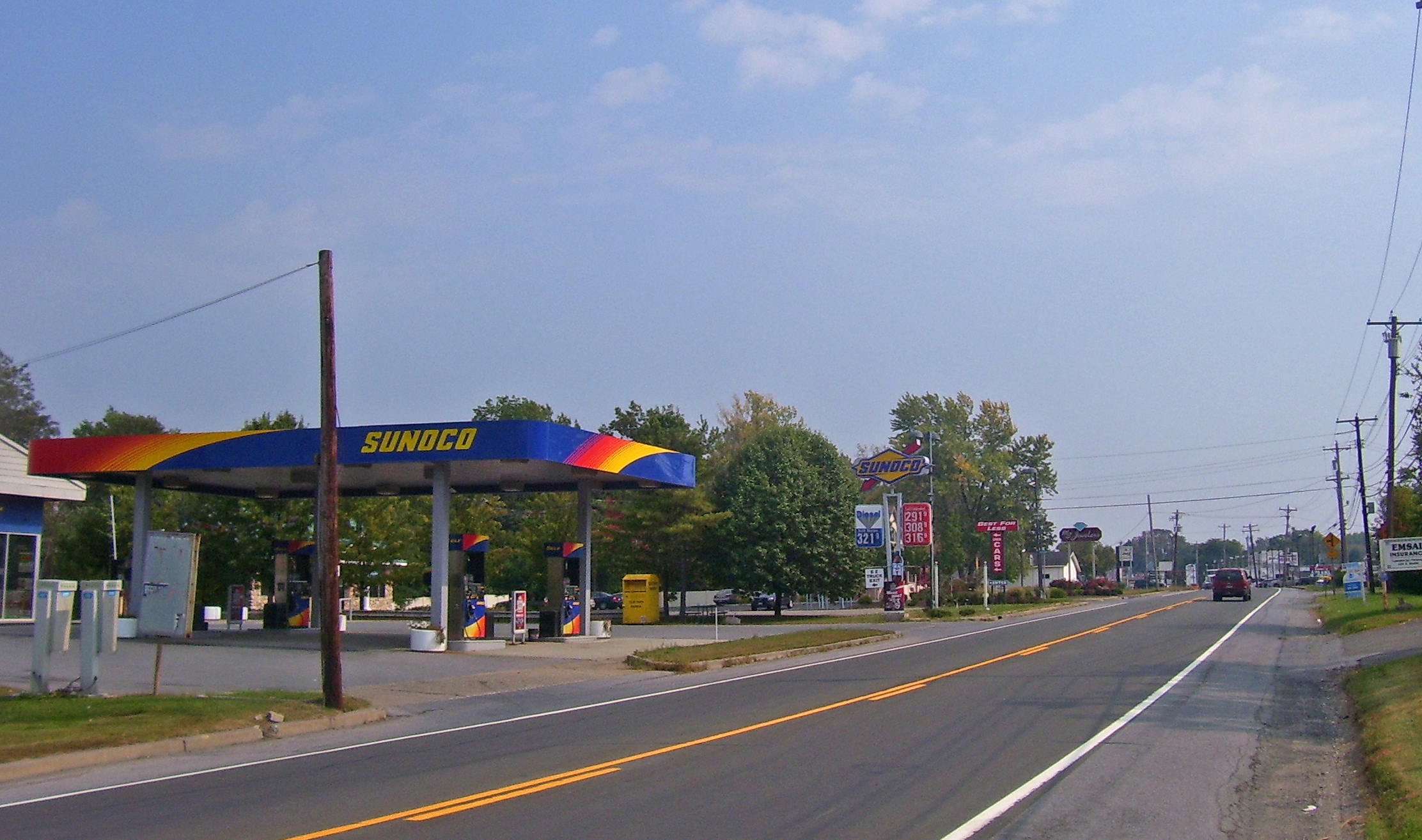 New Hampton, NY, USA